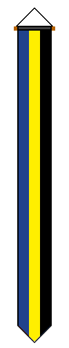 Wimpel van gelderland - Pennant of the Dutch province of Gelderland - own work -- Quistnix 08:38, 11 November 2005 (UTC)